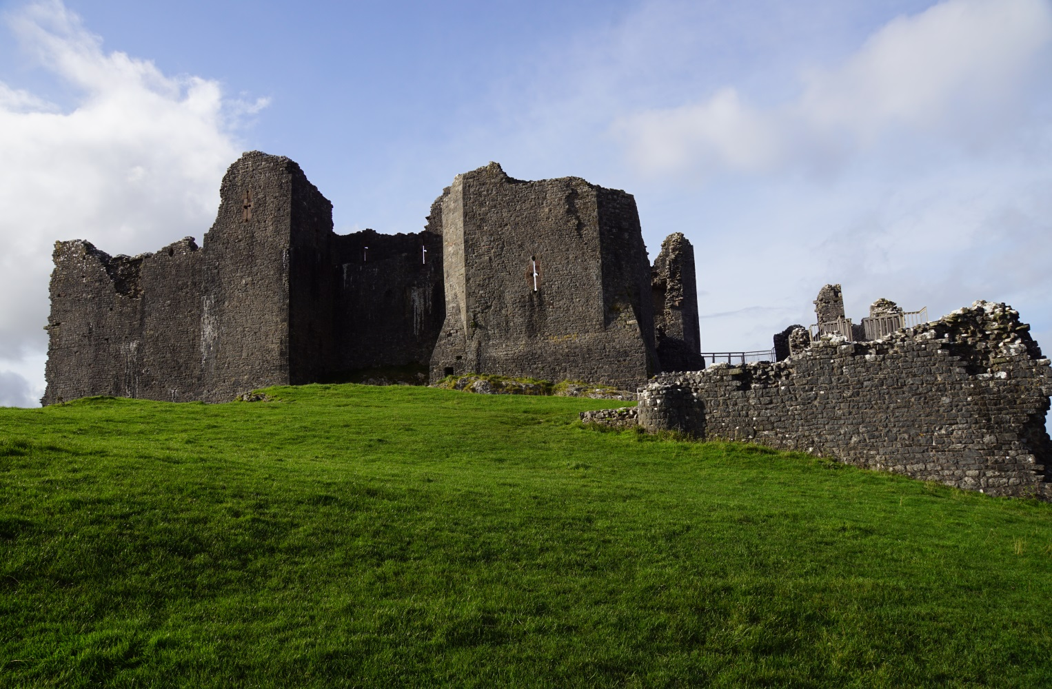 Carreg Cennen Castle, Wales. East side of the castle as seen from the outer ward.